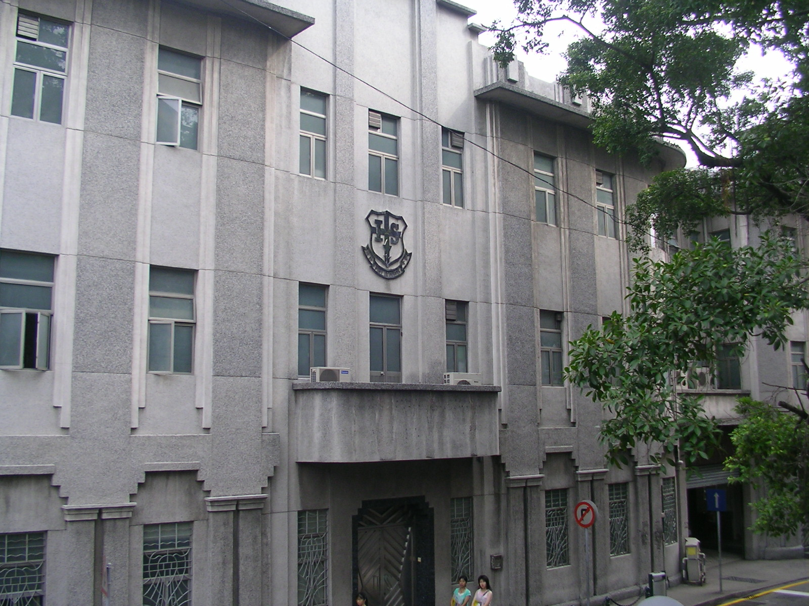 This is Instituto Salesiano de Macau, a school established by the Salesian. Macanese馬交人took this photo.